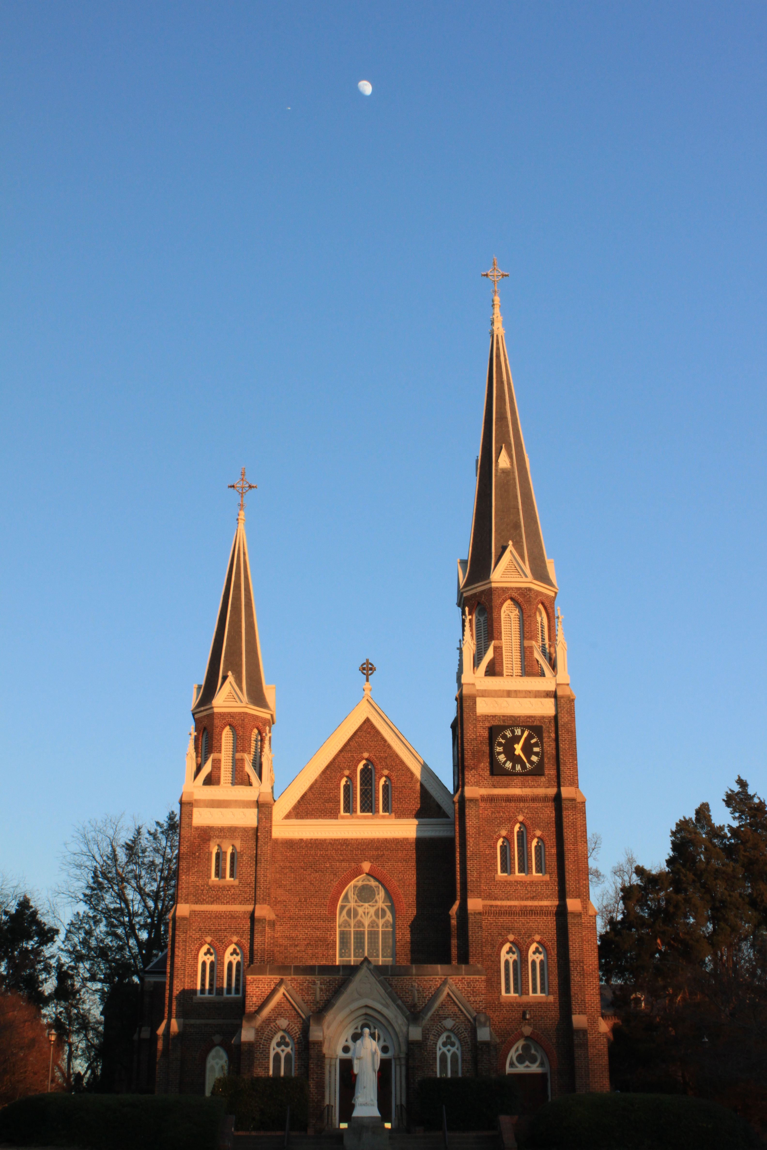 Church at Belmont Abbey